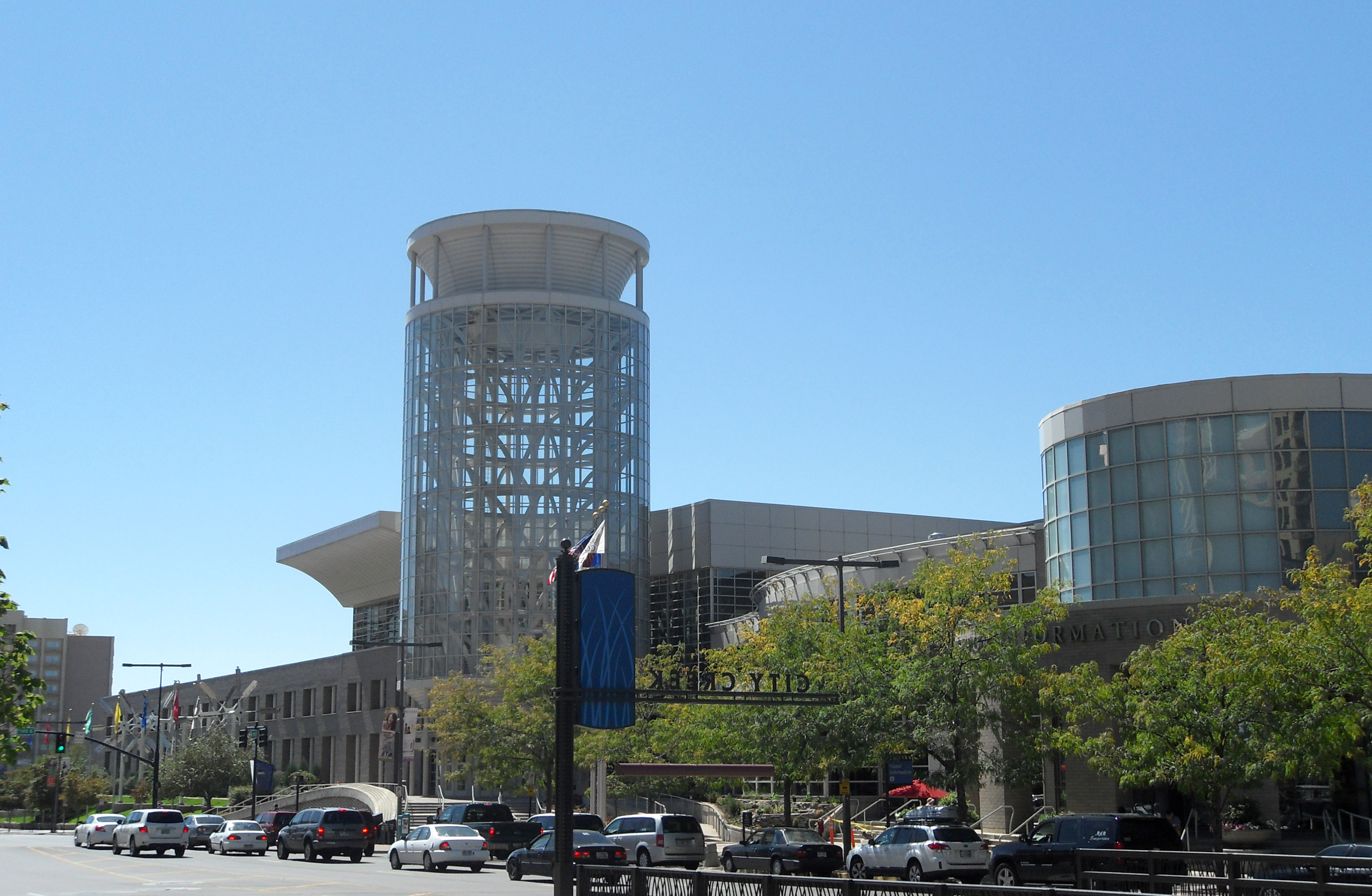 Salt Lake City's Salt Palace convention center on West Temple Street.